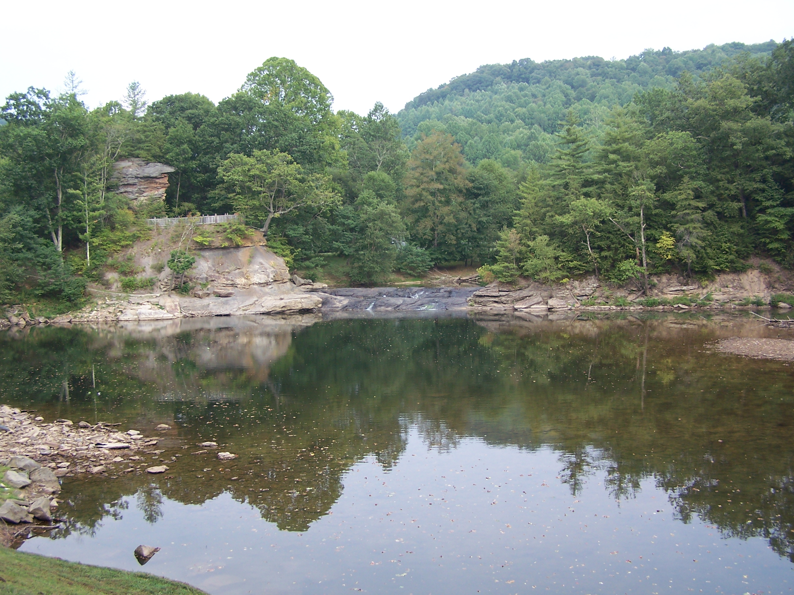 Falls Mill in Braxton County, West Virginia (located off US 19) is the upstream end of Burnsville Lake when at the normal pool elevation.